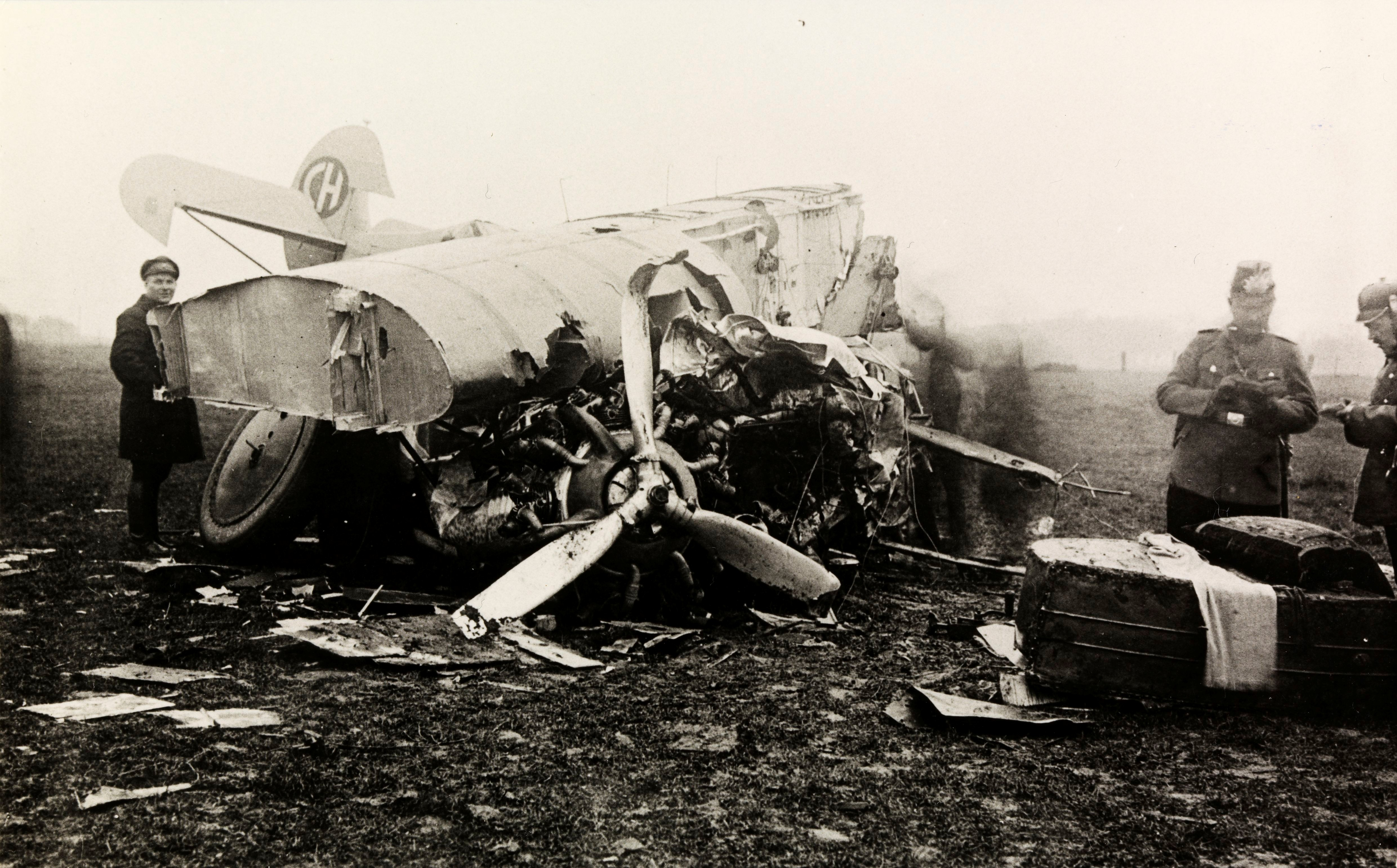 Balair Fokker F-VIIb-3m crashed at Kettwig October 30th in 1930